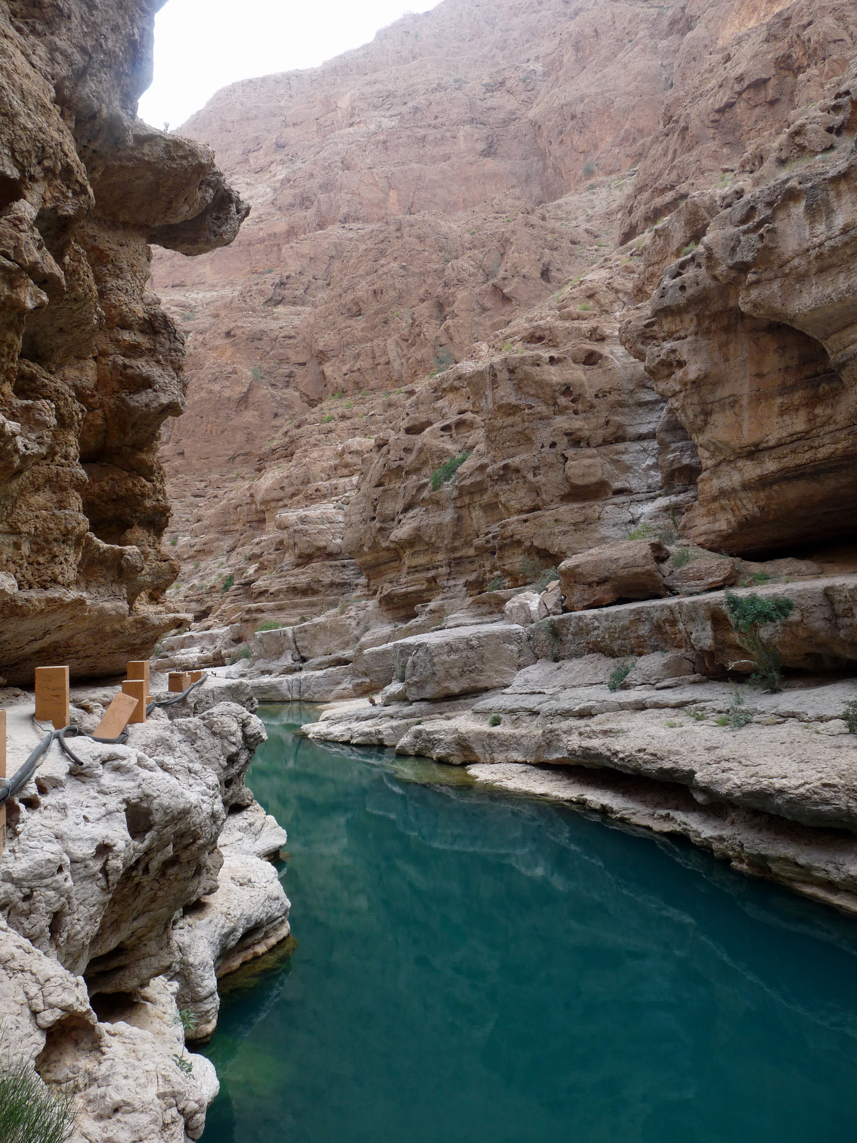 Wadi Shab (Oman)